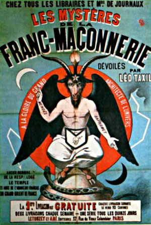 Poster for anti-freemasonry book, with imagery based on Eliphas Lévi's version of "Baphomet" rather than anything Masonic.